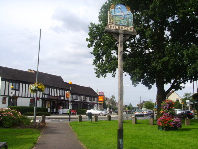 Centre of Bilbrook A nicely painted sign post in the centre of Bilbrook. The Woodman pub can be seen across the road.